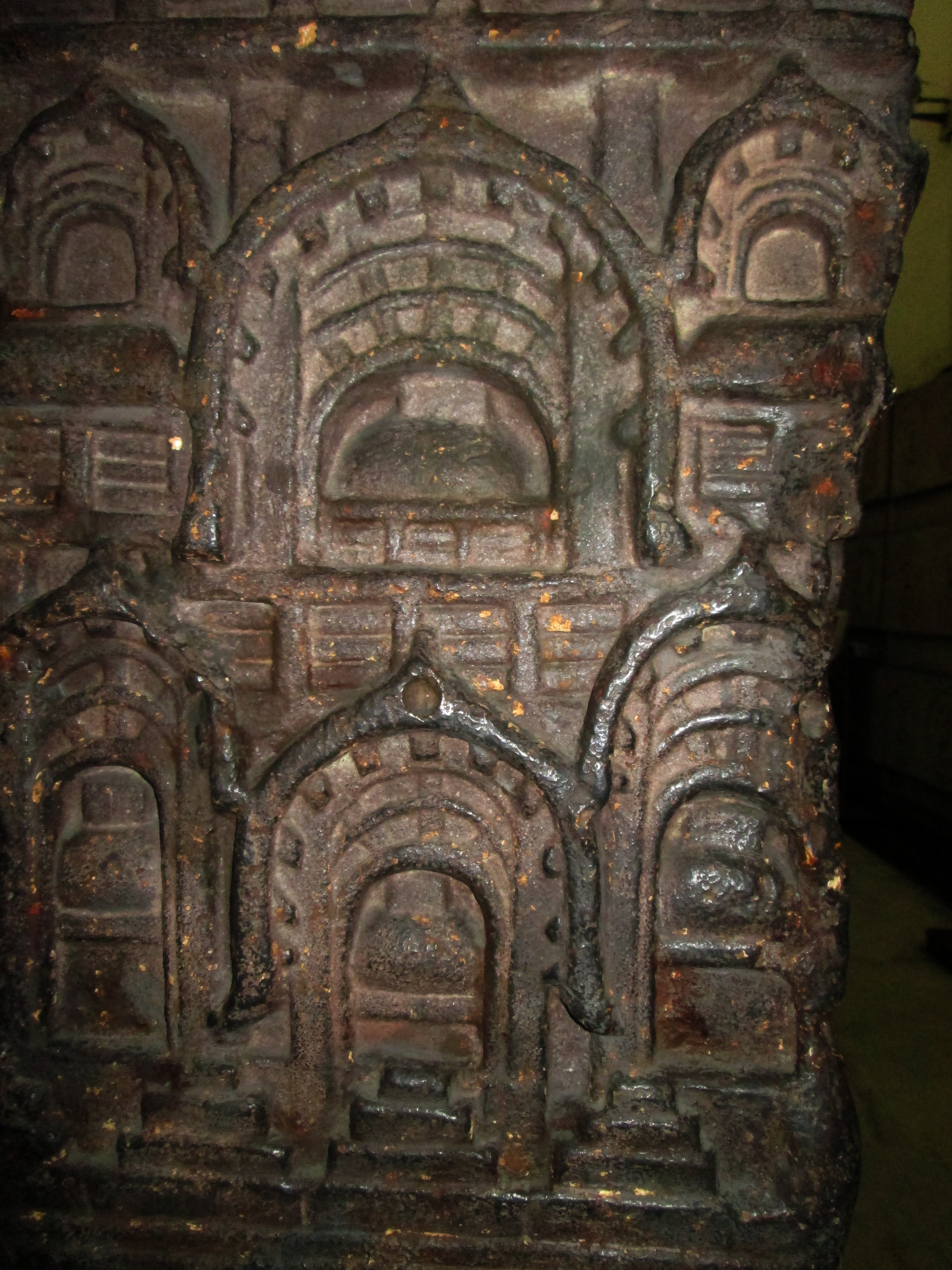 64 Architectural Forms, Bharhut Stupa at the Indian Museum, Kolkata Photograph from the Indian Museum in West Bengal taken by Anandajoti.